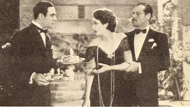 Jack Holt, Mary Astor, and Ricardo Cortez in the 1931 film, White Shoulders Other information for information regarding public domain for an explanation of the copyright